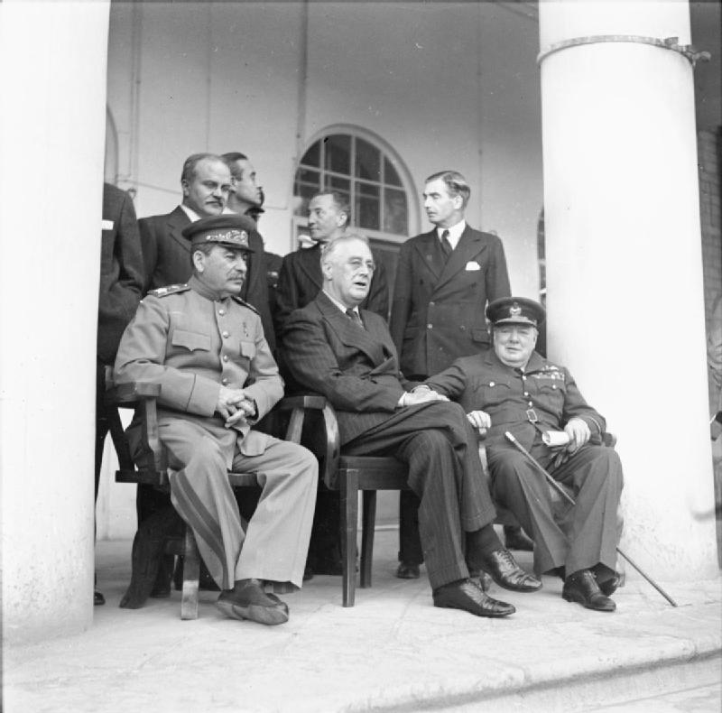 The British Army in the Middle East 1943 Joseph Stalin, Franklin Roosevelt and Winston Churchill at the Teheran conference, 3 December 1943. Behind them are Mr Molotov, Avril Harriman, Sir Archibald Clark-Kerr and Anthony Eden.